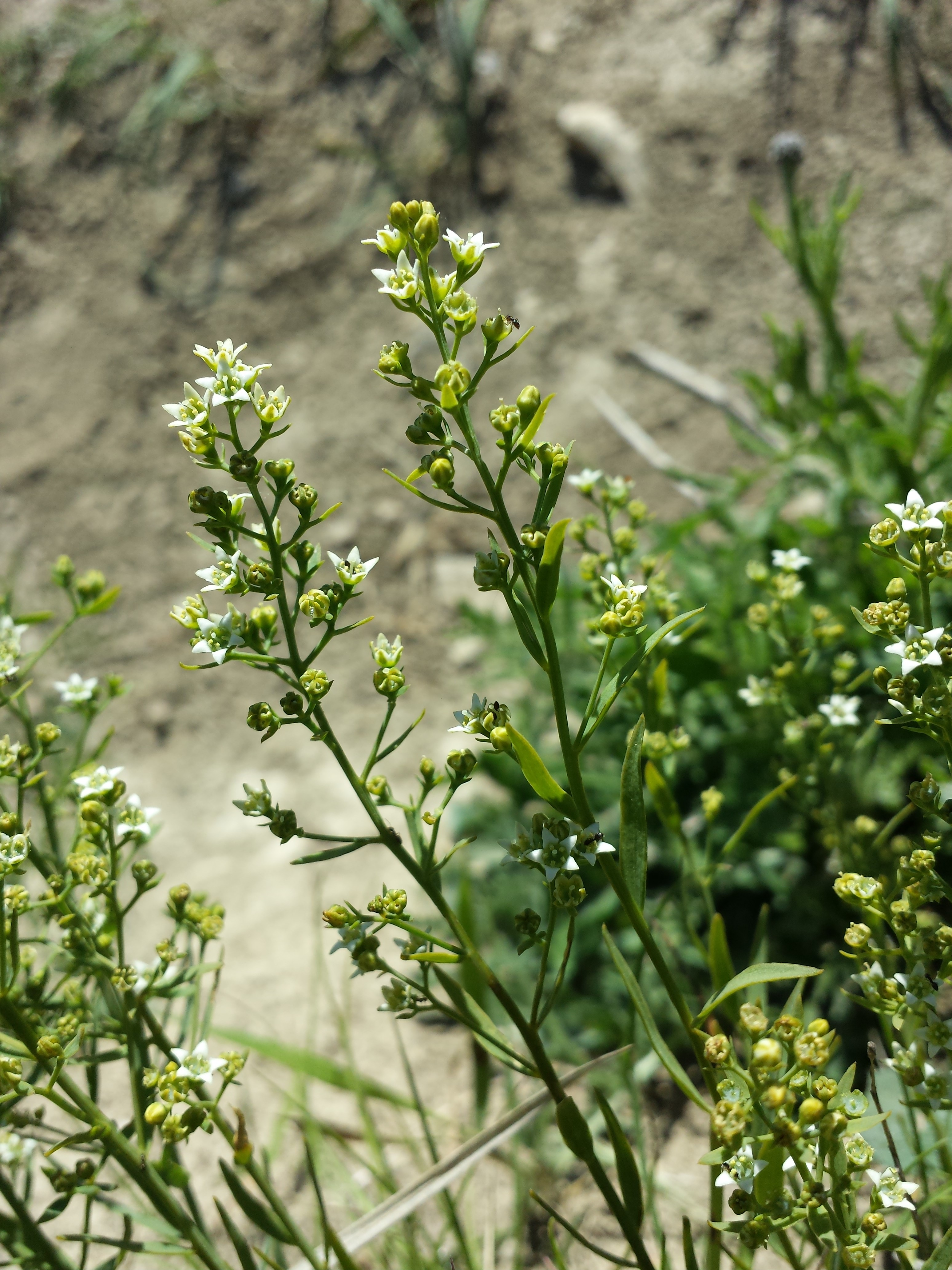 Habitus Taxonym: Thesium linophyllon ss Fischer et al. EfÖLS 2008 ISBN 978-3-85474-187-9 Location: Steinberg near Niederhollabrunn, district Korneuburg, Lower Austria - ca. 375 m a.s.l. Habitat: semi-dry grassland